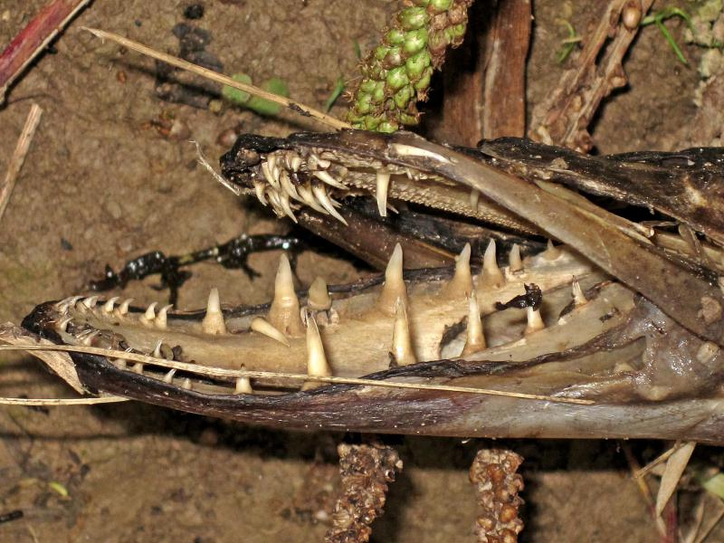 Esox lucius (Northern pike), (dead) Elst (Gld), the Netherlands